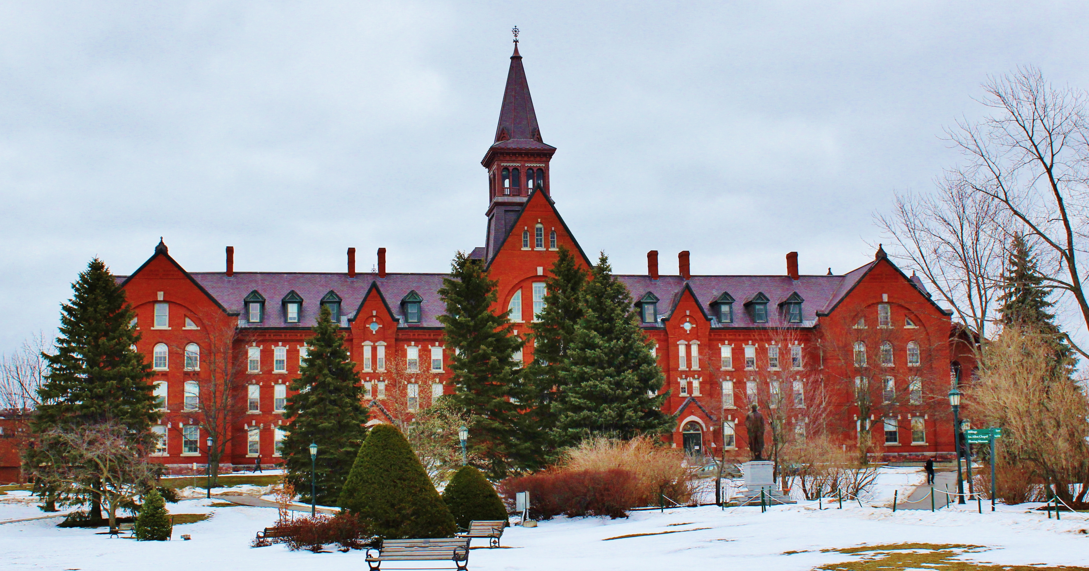 The University of Vermont - My Alma Mater